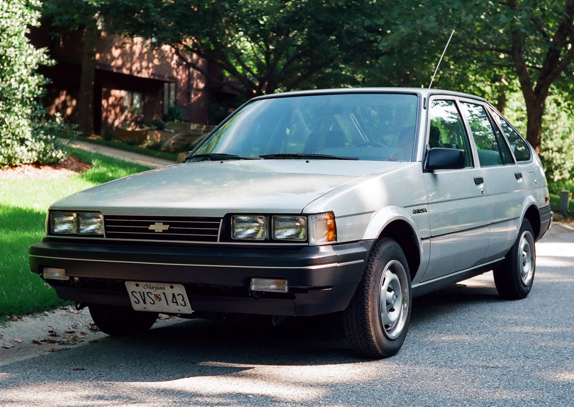 The 1988 Chevy Nova was built at California’s NUMMI plant, a joint venture with Toyota. The Nova was really a rebadged AE82 Corolla.